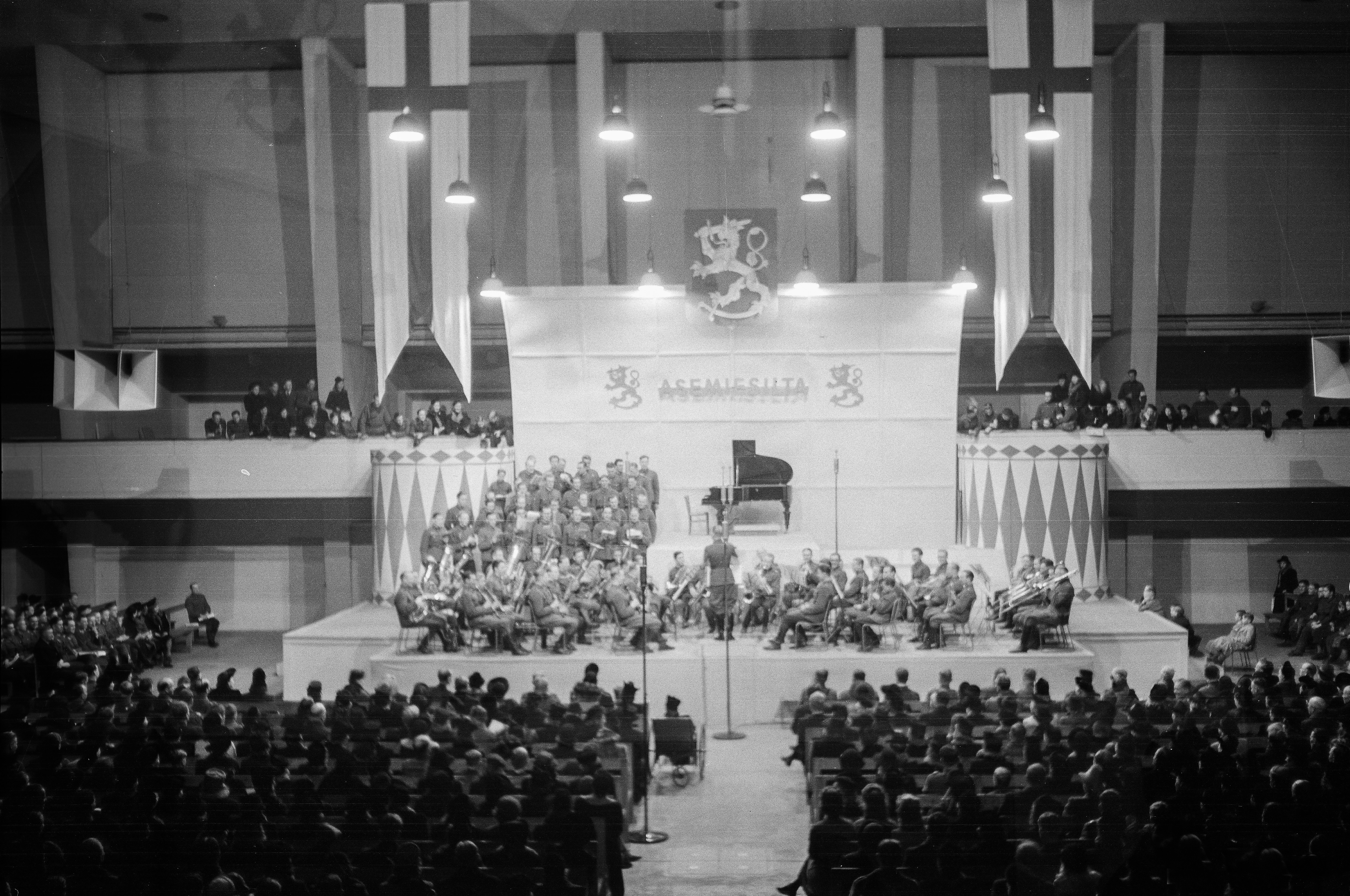 Propaganda entertainmant during the war, 8th of April, 1943 in Helsinki